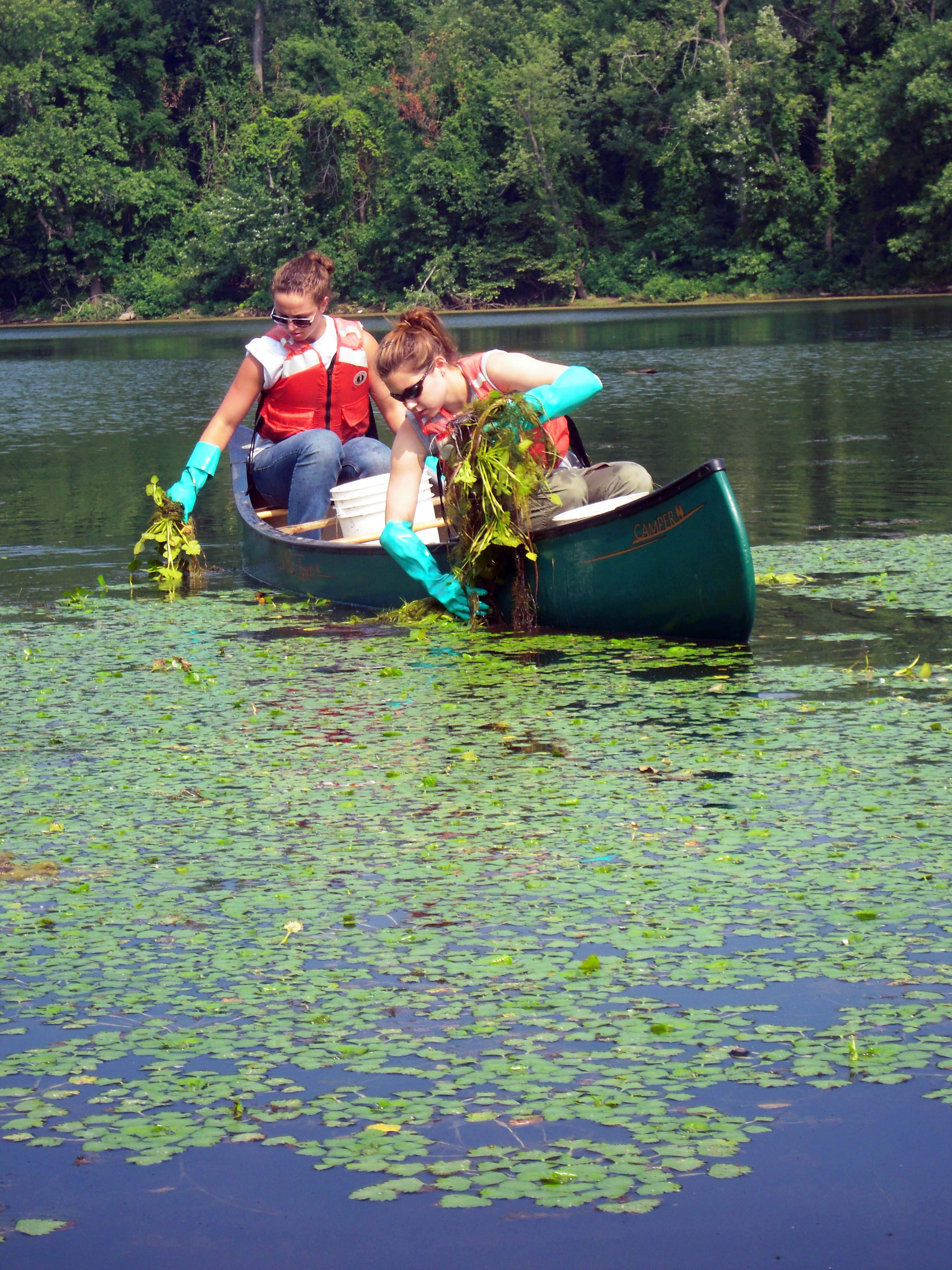 Credit: Maddie List/USFWS